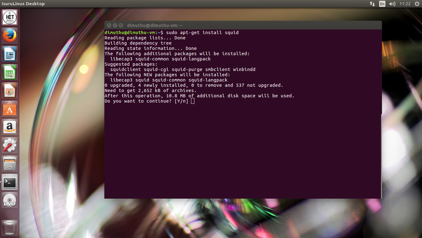 Installing Squid Proxy Server on ISURU Linux 16.04 LTS